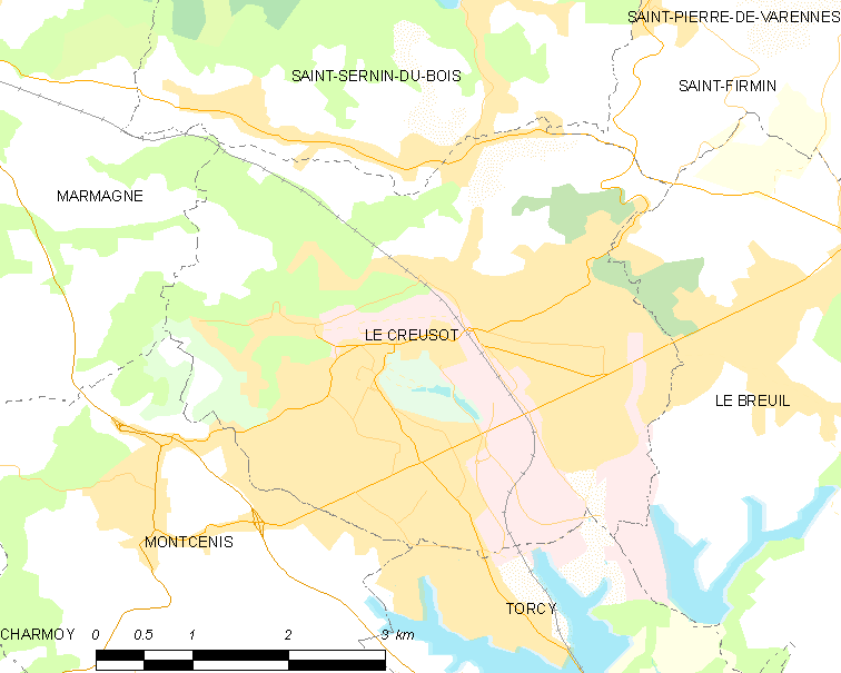 Map of French municipality